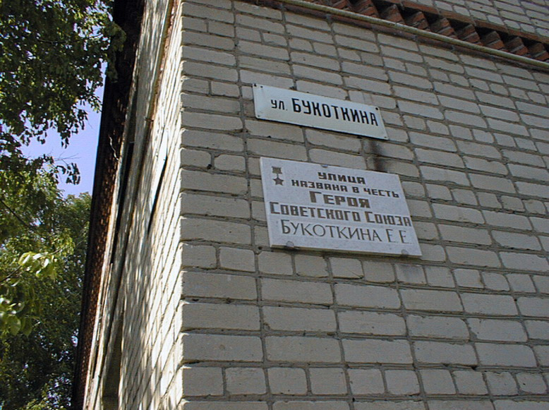 Arkadak. Bukotkin's street